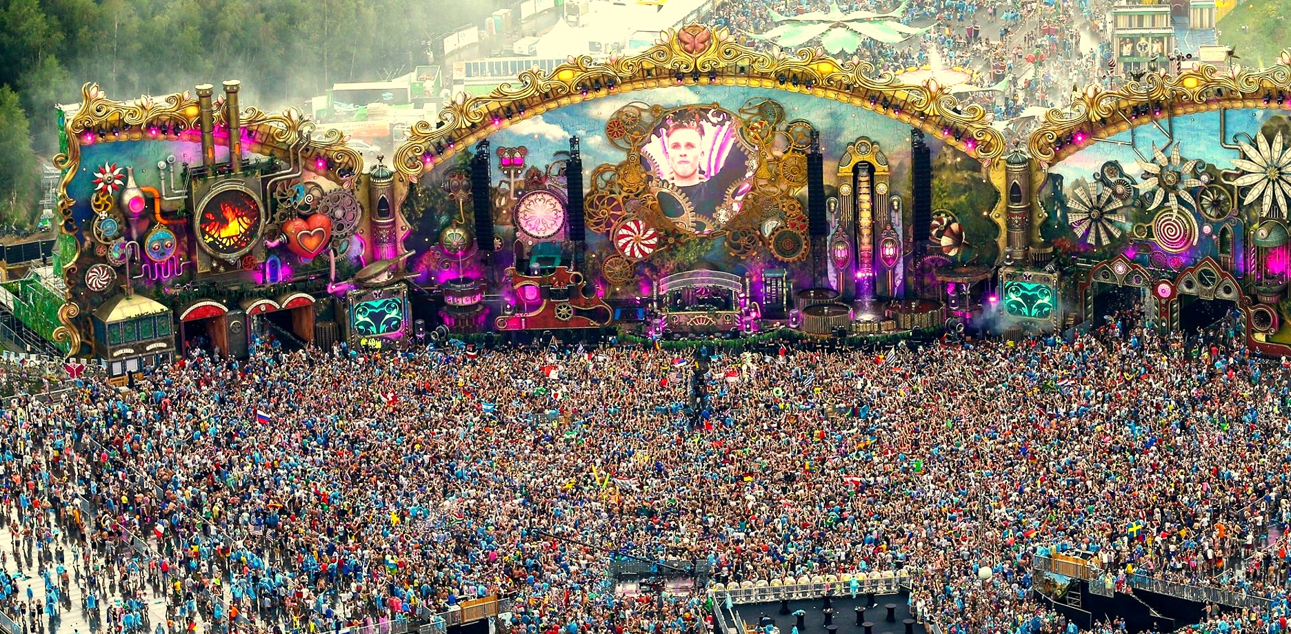 Main Stage @ Tomorrowland 2014